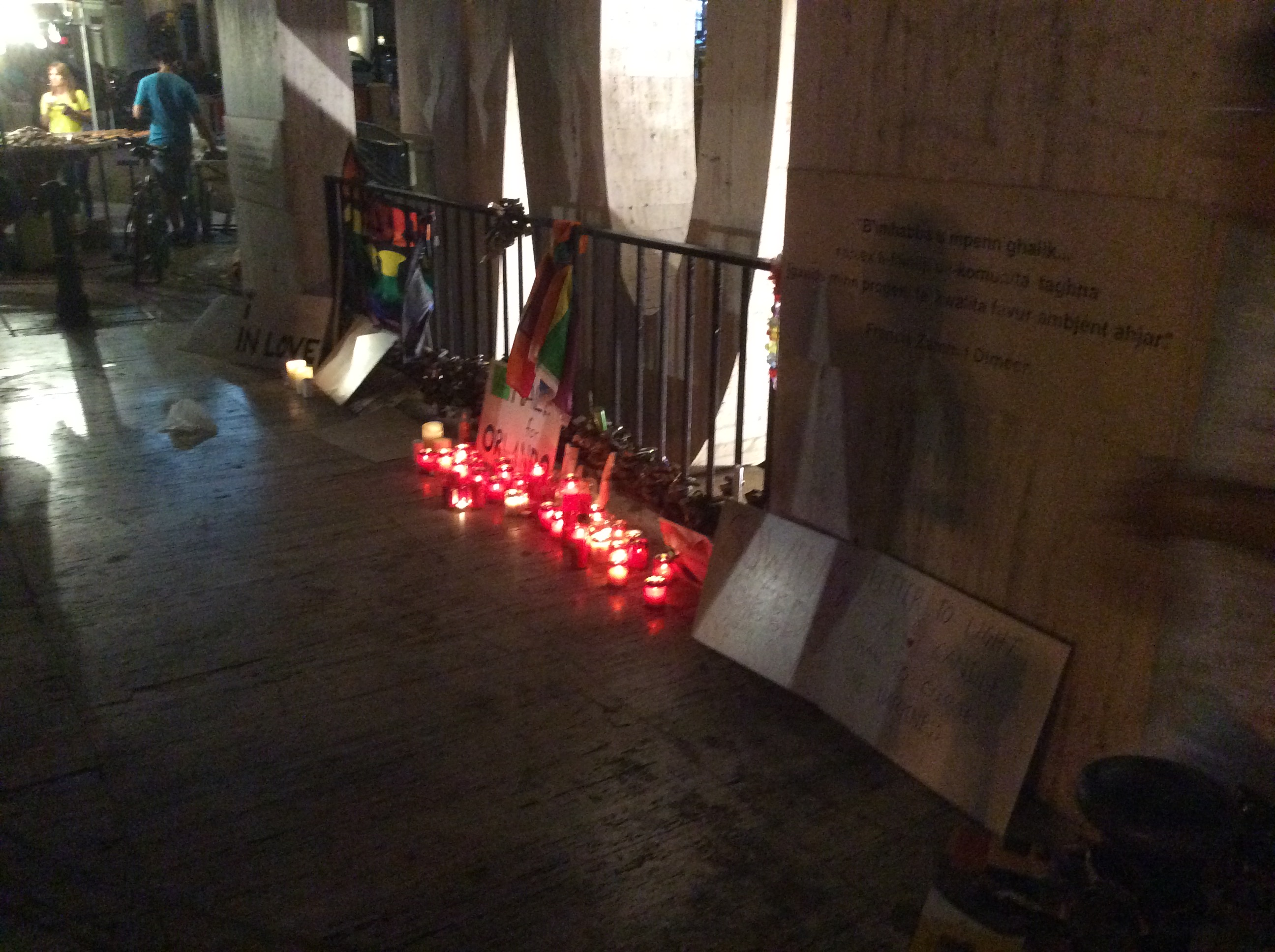 Malta vigil for Orlando shooting in 2016